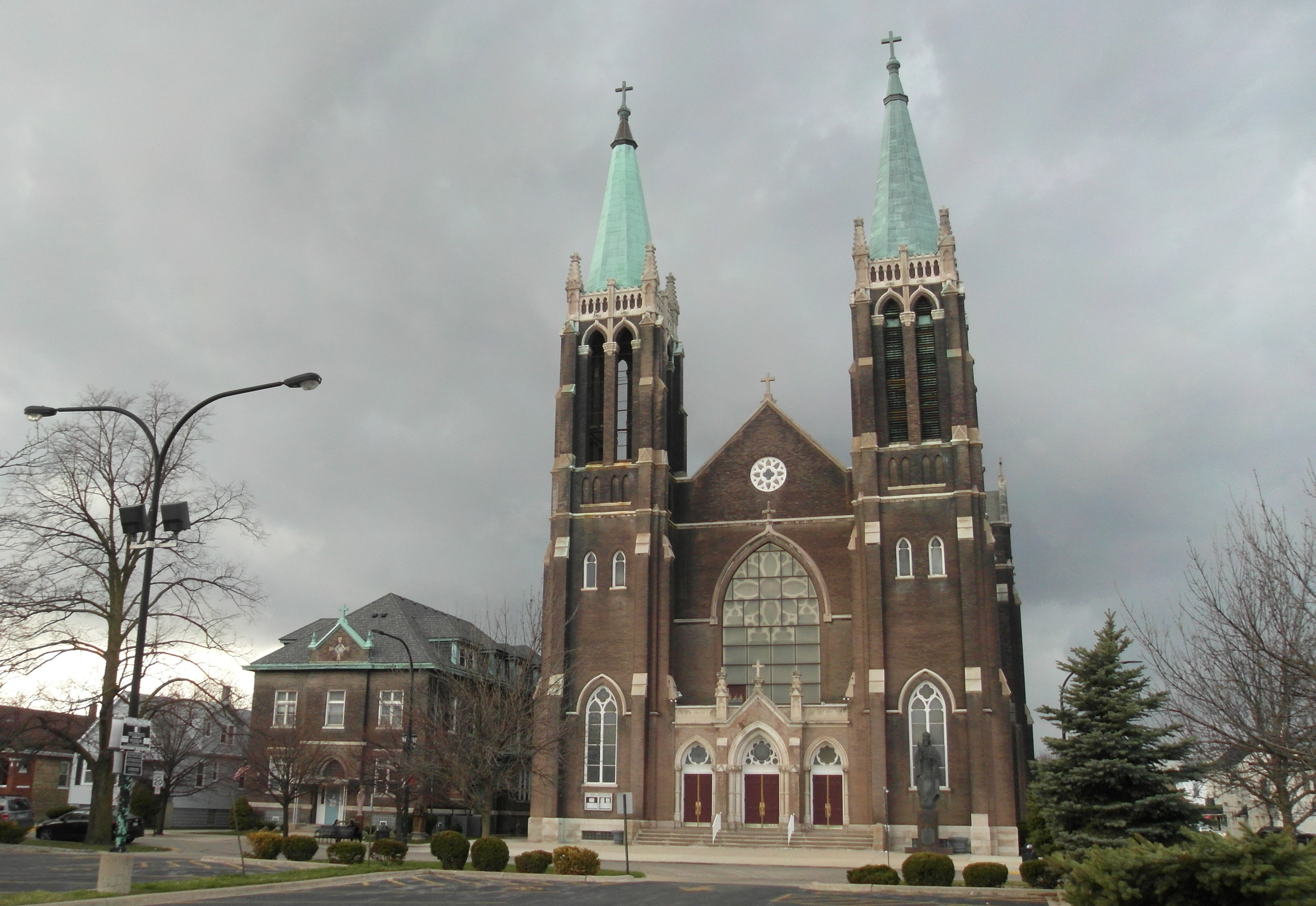 St. Mary of Częstochowa church in Cicero, Illinois viewed from the east